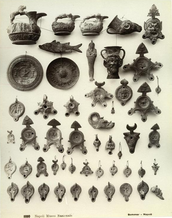 Giorgio Sommer (1834-1914), "Naples National Archaeological Museum" (these are Ancient Roman pottery items found in Pompeii). Catalogue # 11,180.